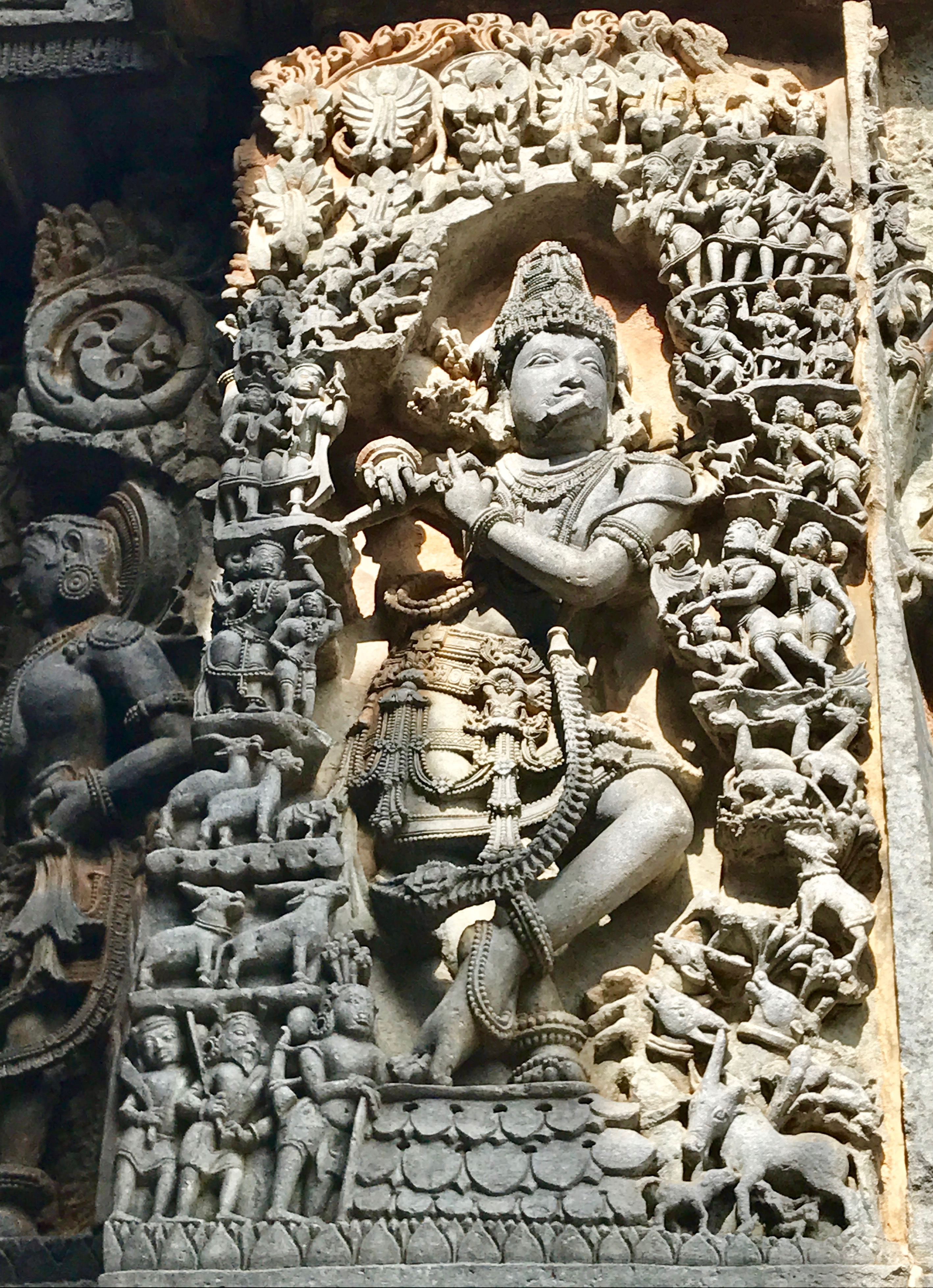 The Hoysaleswara Hindu temple is dedicated to Shiva. It was built in the first half of 12th century in Halebid (previously called Dwarasamudra, Hale bidu means "old capital"), sponsored by King Vishnuvardhana of the Hoysala Empire. During the early 14th century, Halebidu temple site along with others were sacked, looted and much artwork damaged (particularly nose/face, hands) by Muslim invaders from northern India (Khilji dynasty and Tughlaq dynasty of Delhi Sultanate). The temple belongs to the Shaivism tradition of Hinduism, yet reverentially presents its Vaishnavism and Shaktism tradition legends and ideas. The relief panels present legends from the Ramayana, the Mahabharata, the Puranas. Vedic deities such as Agni, Indra and Surya, various avatars of Vishnu, the Hindu goddesses such as Saraswati, Lakshmi avatars, Durga, Kali among others are presented. The carving is three dimensional where reliefs often emerge as statues with depth. Panels are continuous, with one perspective showing one part of the legend, a perpendicular perspective of the same column or wall or corner showing another part of the same legend. The carving material was soapstone.